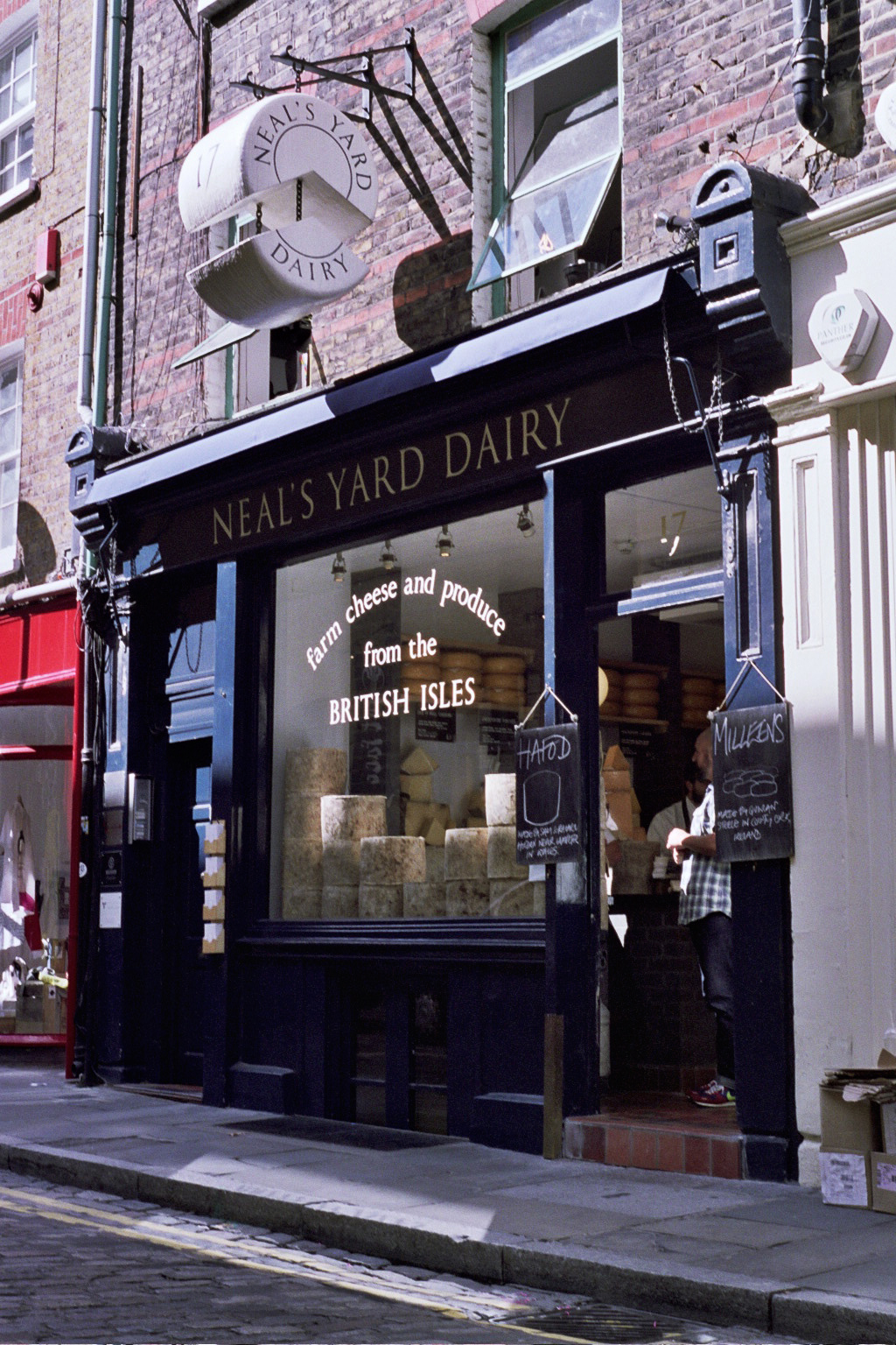 Neal's Yard Dairy Shop in Shorts Gardens, Covent Garden